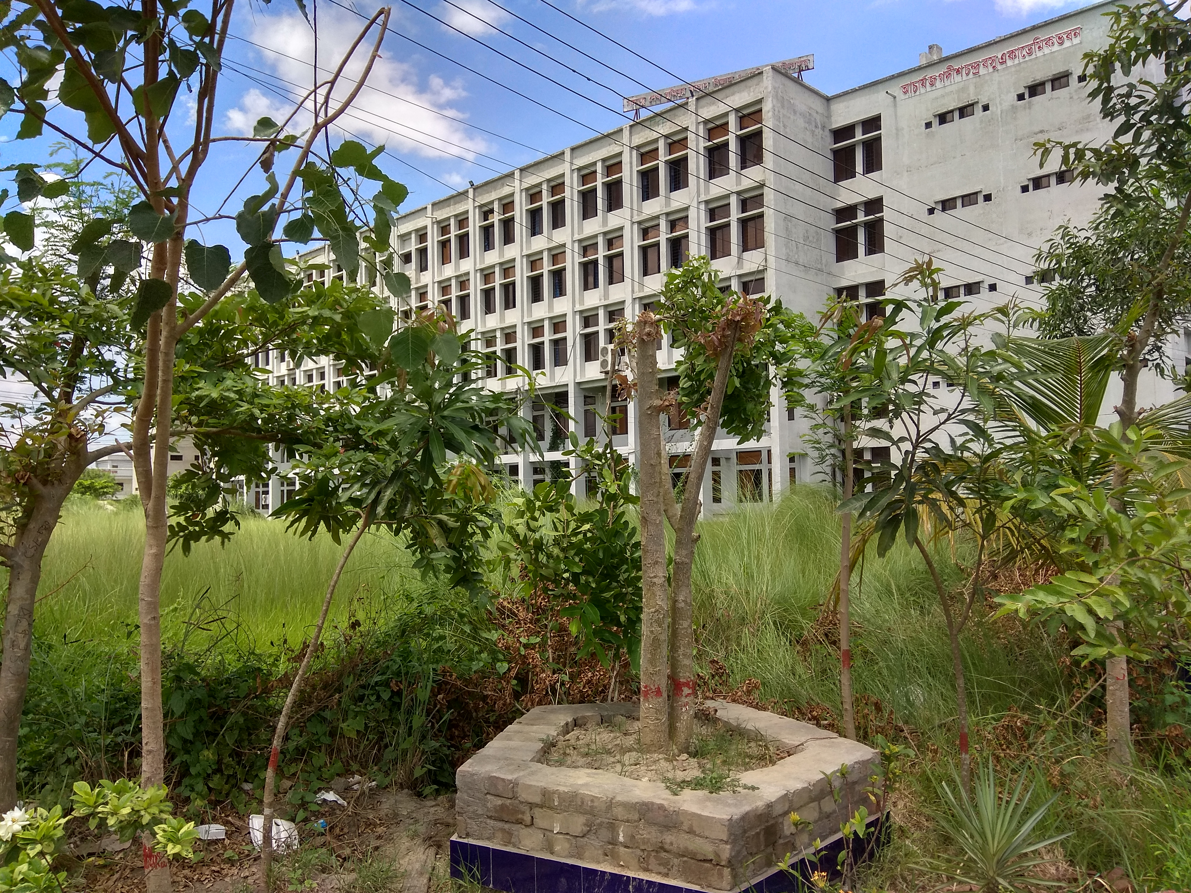 This is the main academic building.